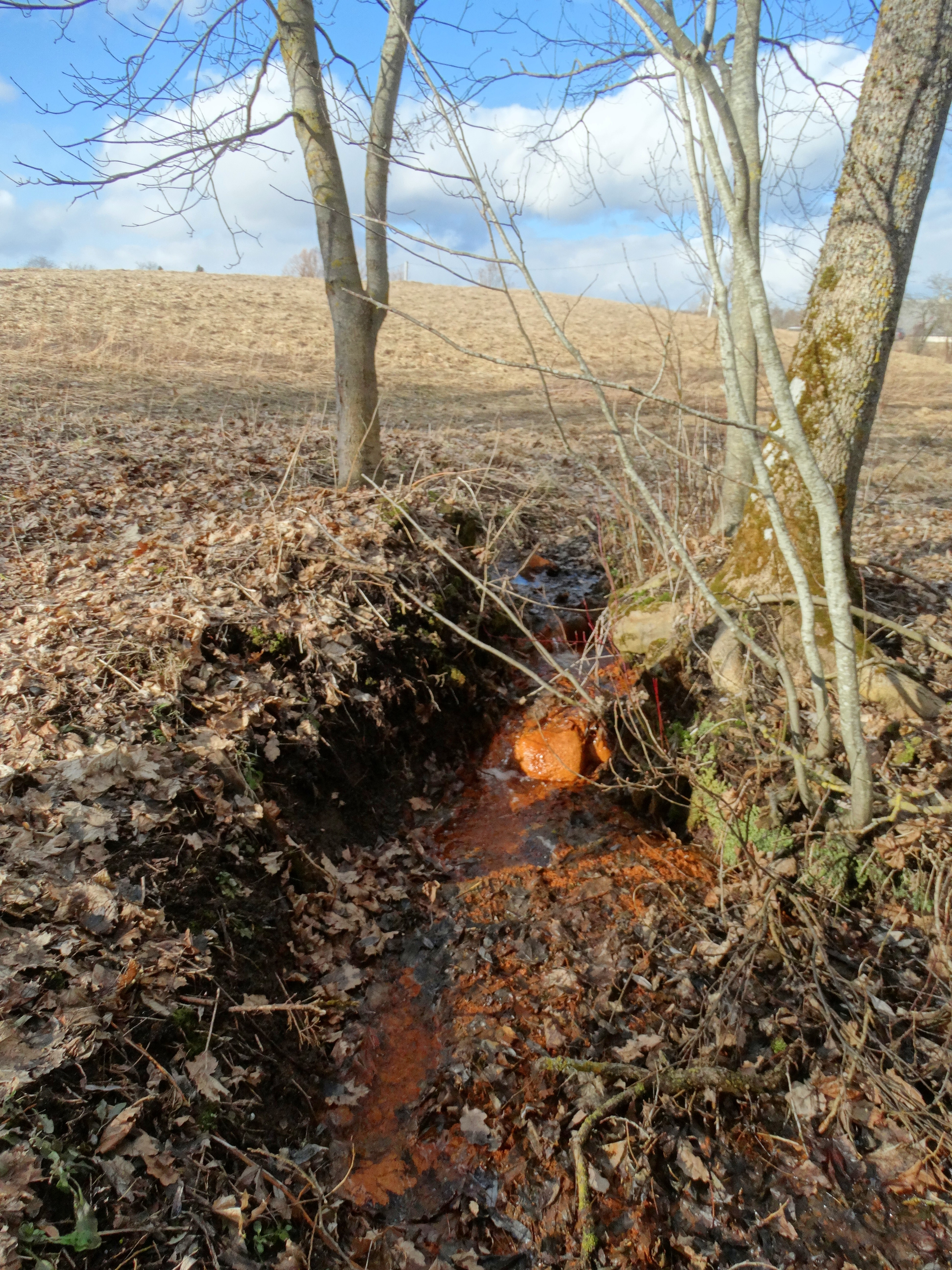 Rudoji versmelė (Brown Spring), Salakas, Zarasai district, Lithuania